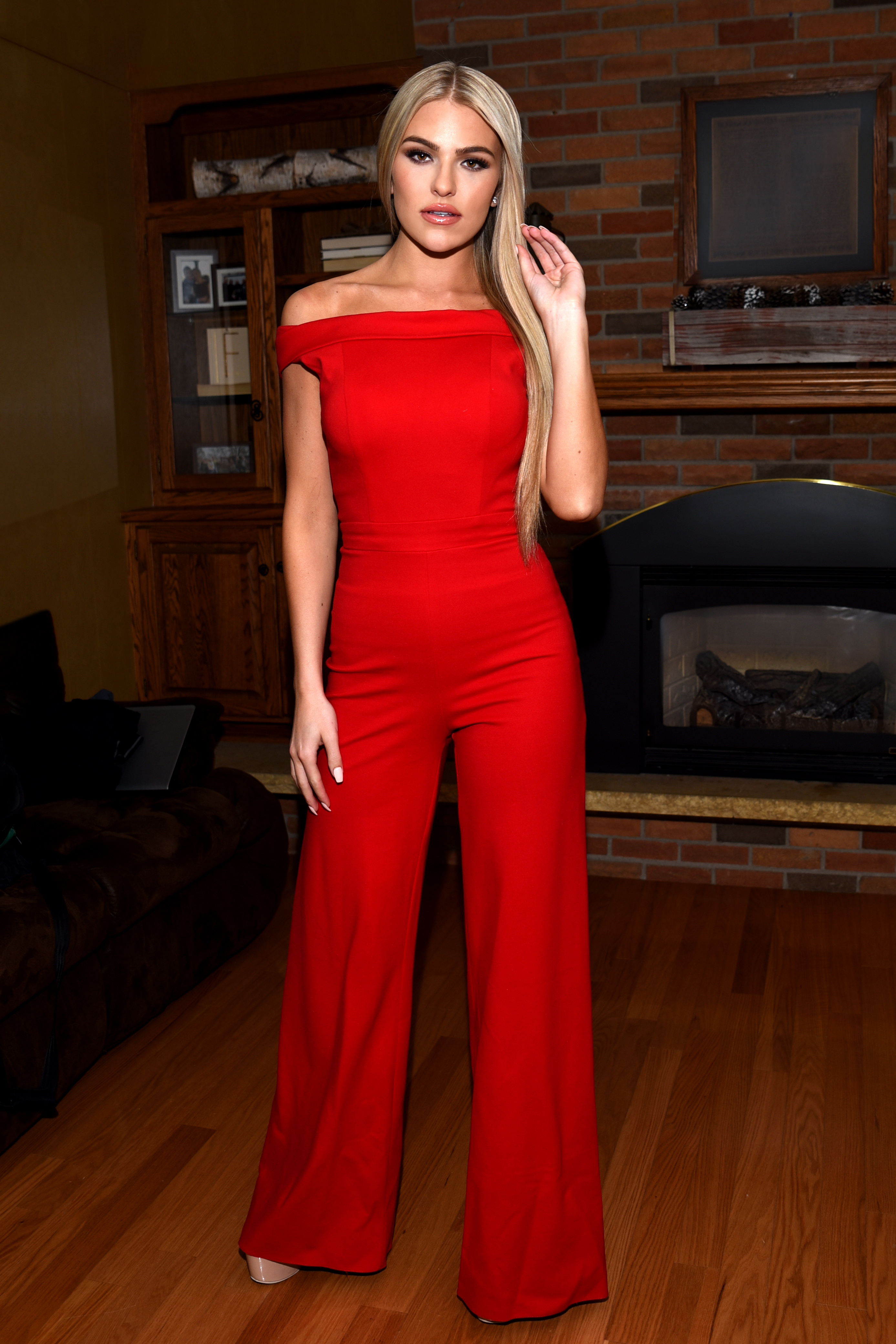 Woman wearing Red Jumpsuit - Photo by Glenn Francis of